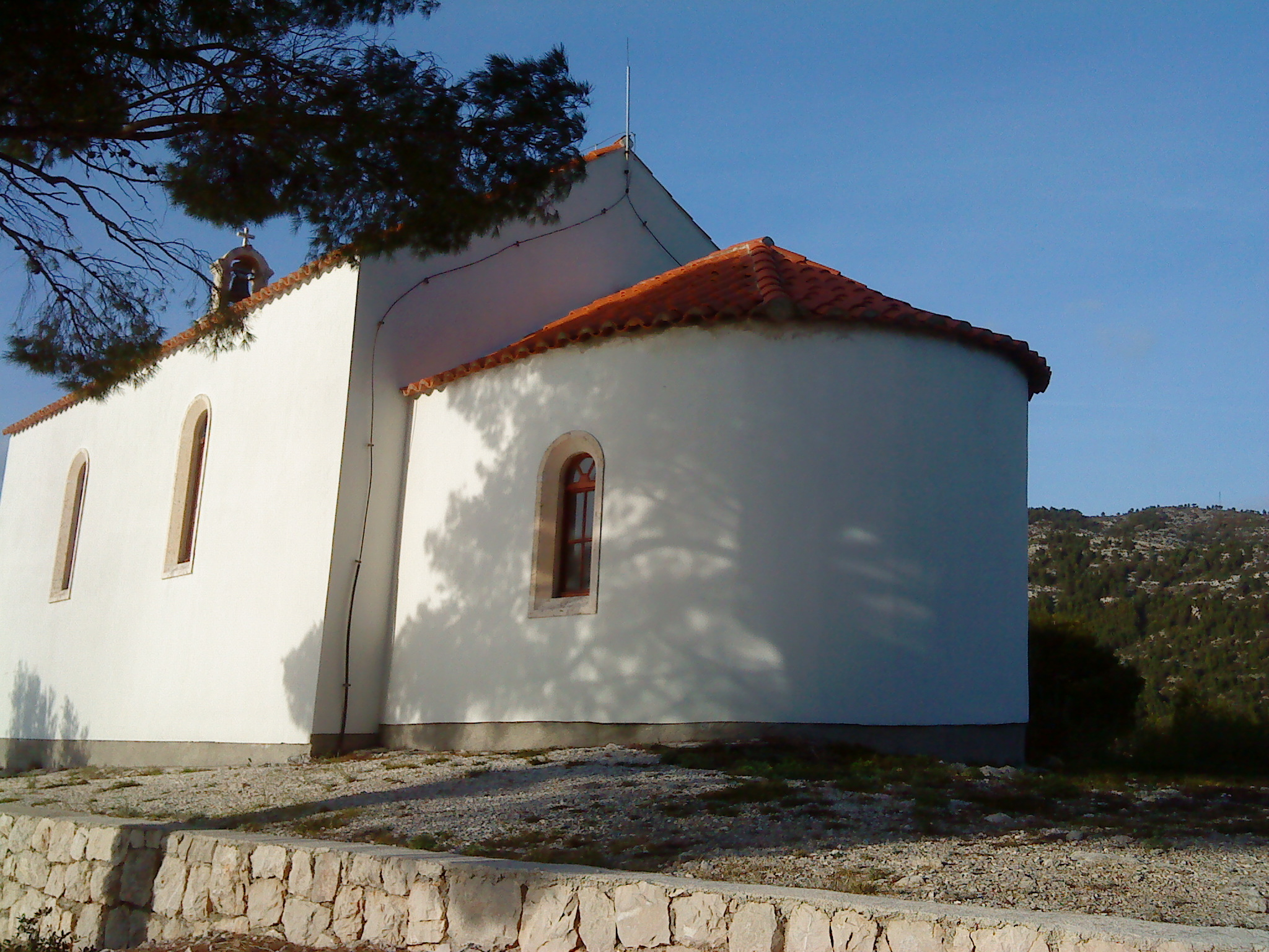 Our Lady of Seven Sorrows church in Žuljana